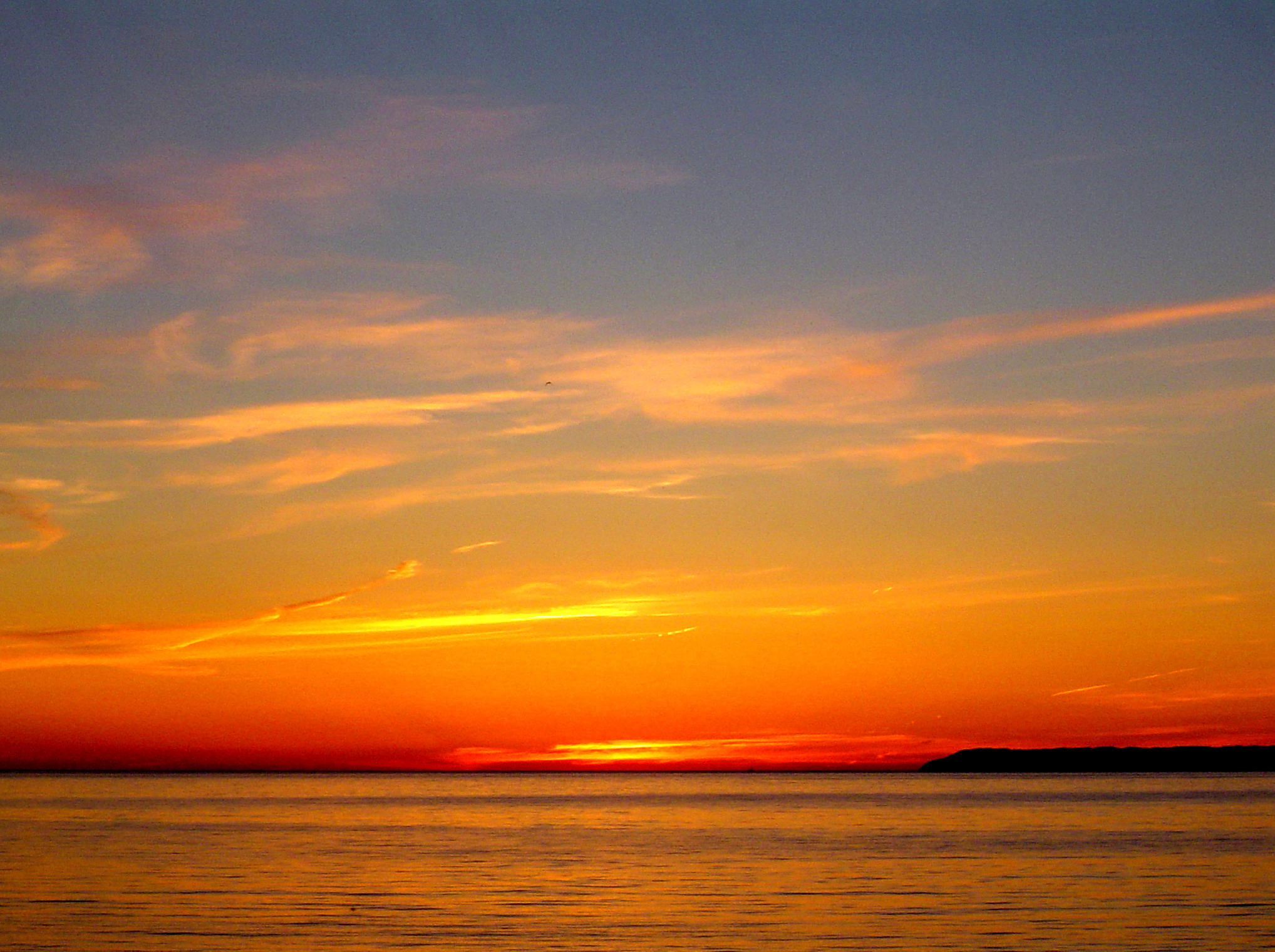 Lake Michigan at dusk (as seen from Glen Arbor)